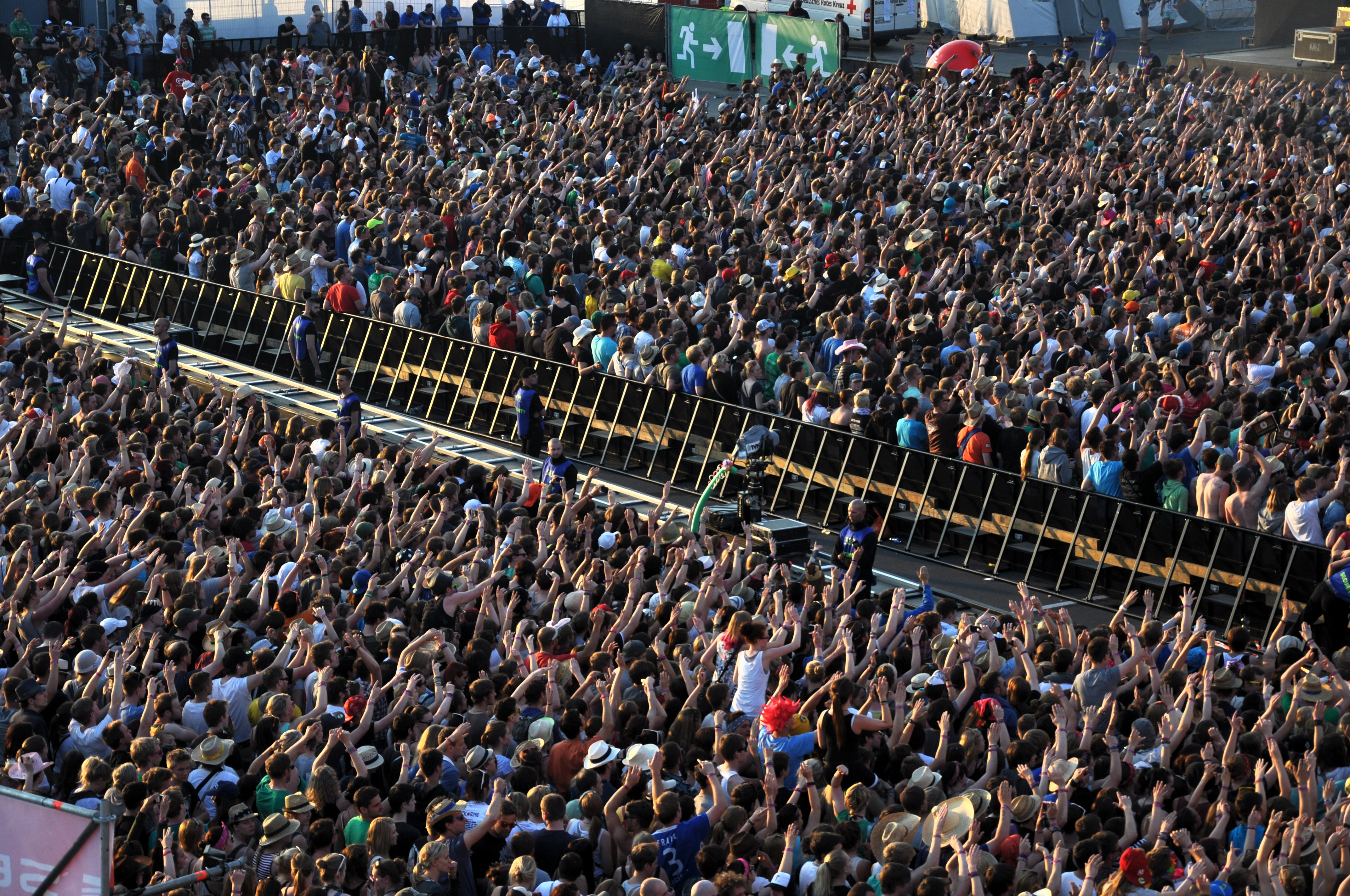 Centerstage at Rock am Ring 2013